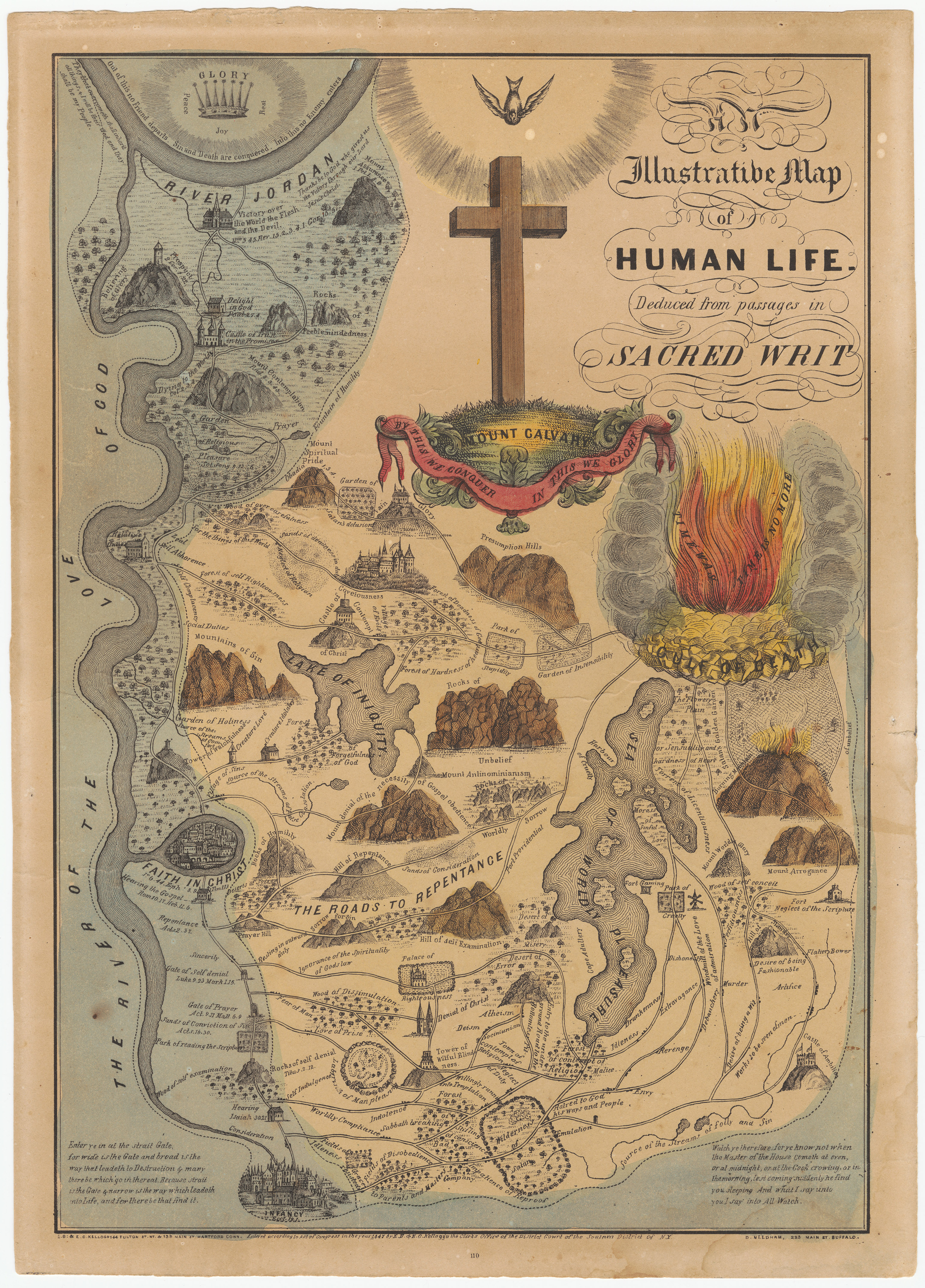 This allegorical map shows the road from Infancy to Glory or to the hellish Gulf of Death.